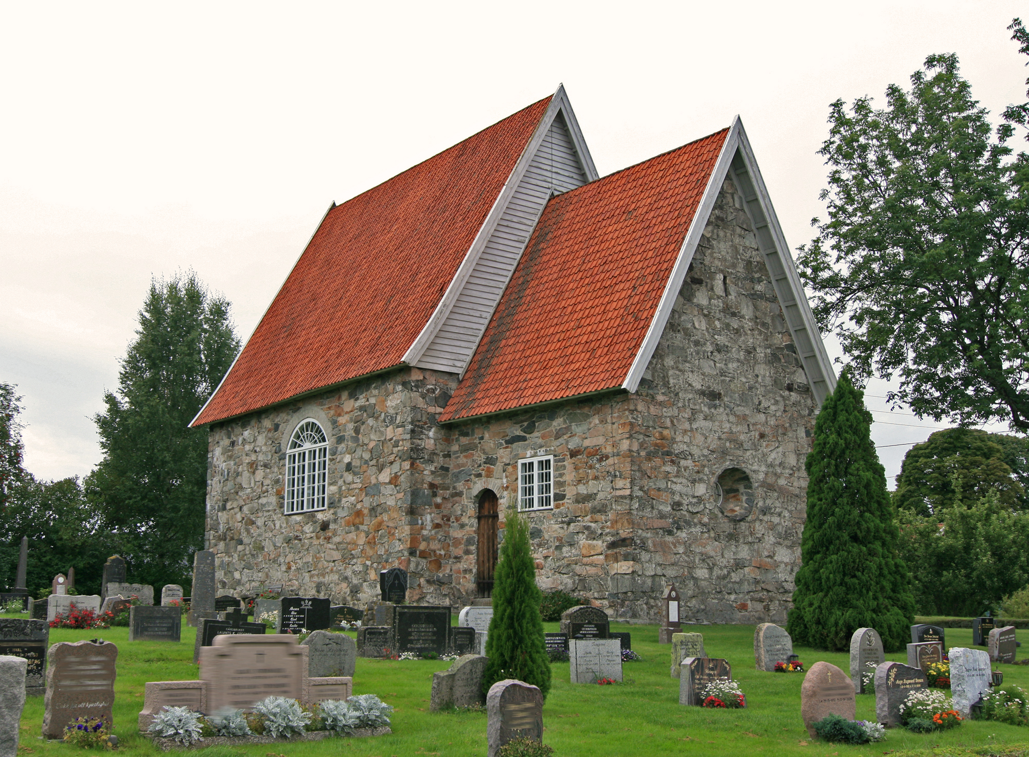 Frogner medieval church, Sørum, Akershus, Norway.